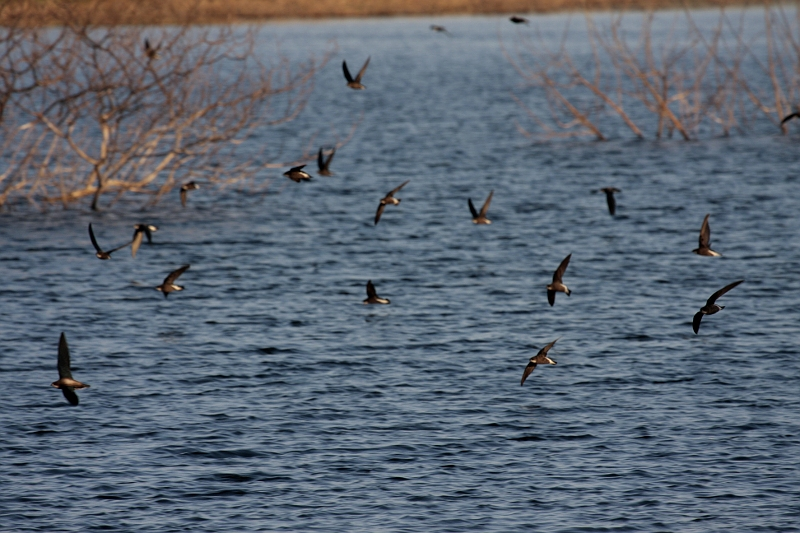 White-throated Needletails (Hirundapus caucacutus) drinking on Lake Samsonvale, SE Queensland on a very hot day.